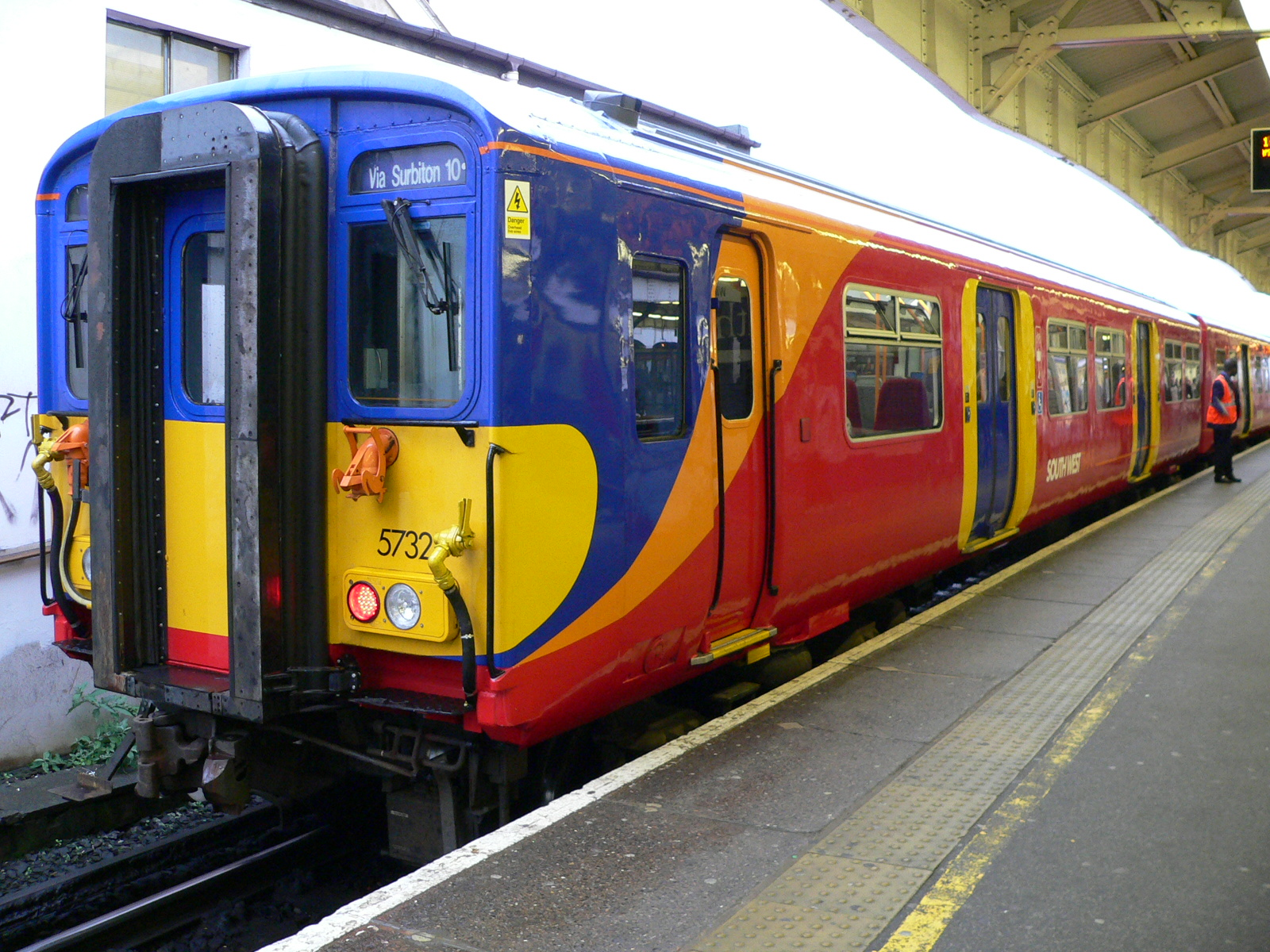 South West Trains Class 455 electric multiple unit number 455732 on a stopping service to Woking via Surbiton at Wimbledon Station on 24 October 2005.